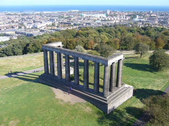 Nelson Monument view of National Monument Begun in 1822, Scotland's National Monument to the fallen in the Napoleonic Wars was to be a church designed by William Playfair and modelled on the Parthenon on the Acropolis of Athens. The pillars of Craigleith sandstone, each weighing between 10 and 15 tons and costing over £1,000, were to be paid for by public subscription. The donations dried up, however, and work had to be stopped in 1829, leaving behind an instant ruin which has become one of the most recognisable landmarks on the Edinburgh skyline.